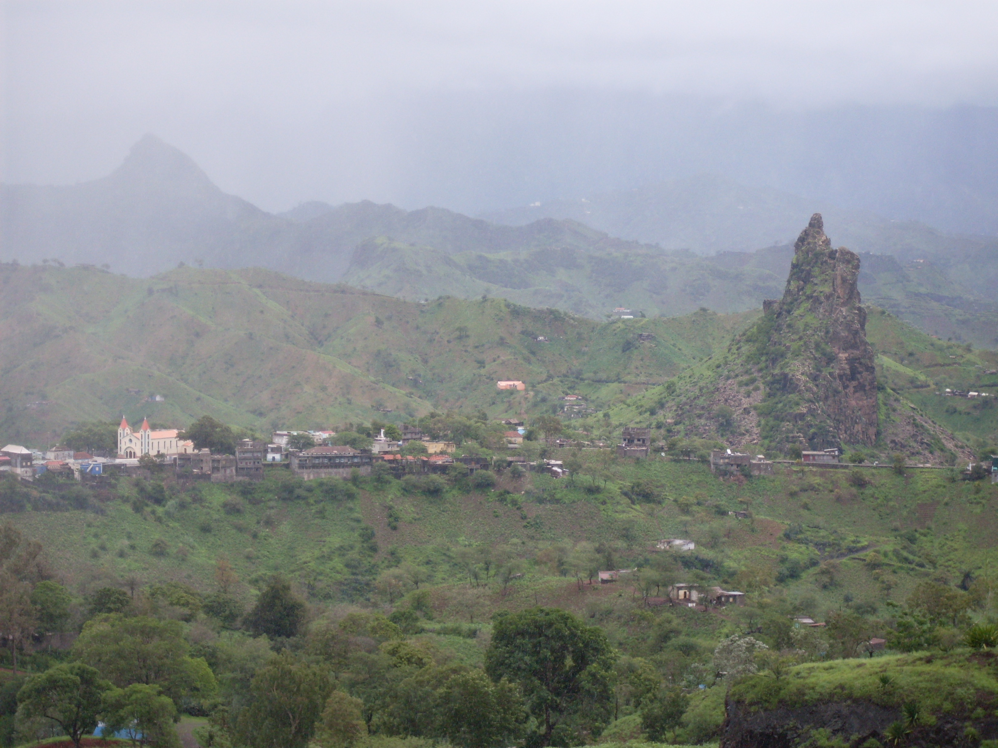 View over the town of Picos in Santiago, Cape Verde